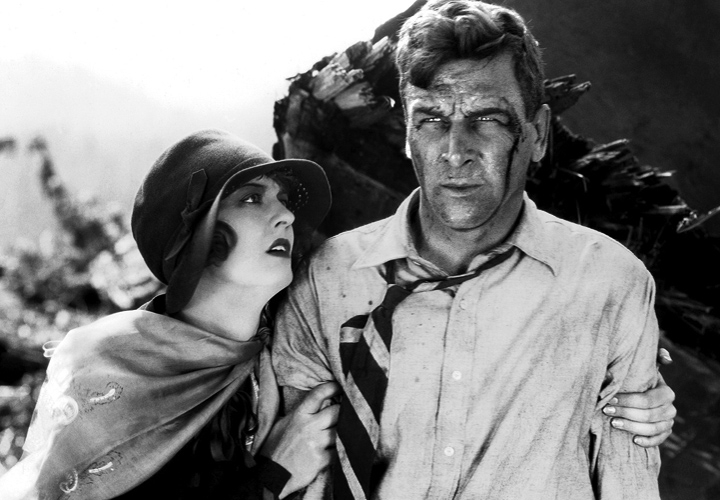 Publicity photo of Doris Kenyon and Milton Sills for The Valley of the Giants (1927).